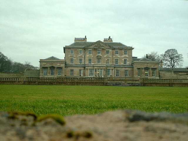 Hickleton Hall, Hickleton, South Yorkshire, seen from the east